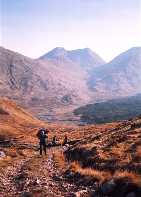 Streap View Carrying supplies into Kinbreak bothy, heatwave Easter 2003 - the hard work made easier by the constantly changing views of magnificent west highland peaks.